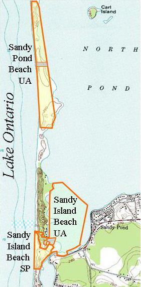 Topographic map showing the boundaries of three New York State public areas on the barrier beach between eastern Lake Ontario and Sandy Pond in Oswego Country. Sandy Pond Beach Unique Area and Sandy Island Beach Unique Area are conservation areas; Sandy Island Beach State Park is primarily a public beach on Lake Ontario. Gray shaded areas are privately owned properties that are surrounded by the Unique Areas. The boundaries were drawn based on Oswego County tax maps.